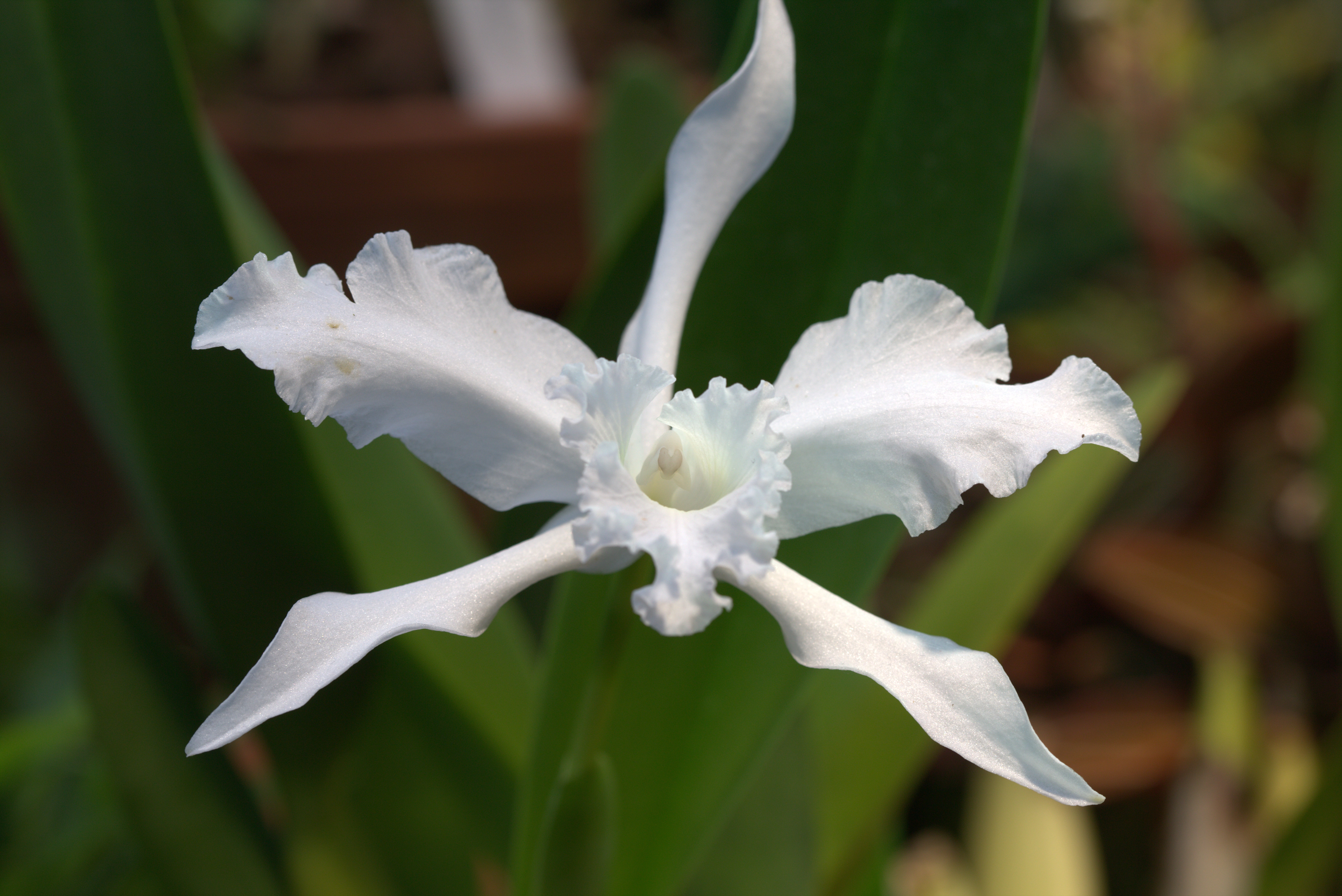 Laelia lobata 'Alba' in Gothenburg botanical garden. Plant id: 1986-V0811 p G